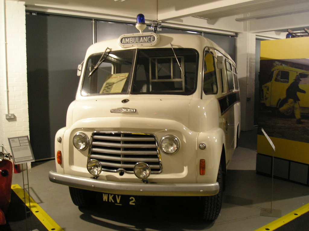 Commer BF ambulance - P1010012_Old1